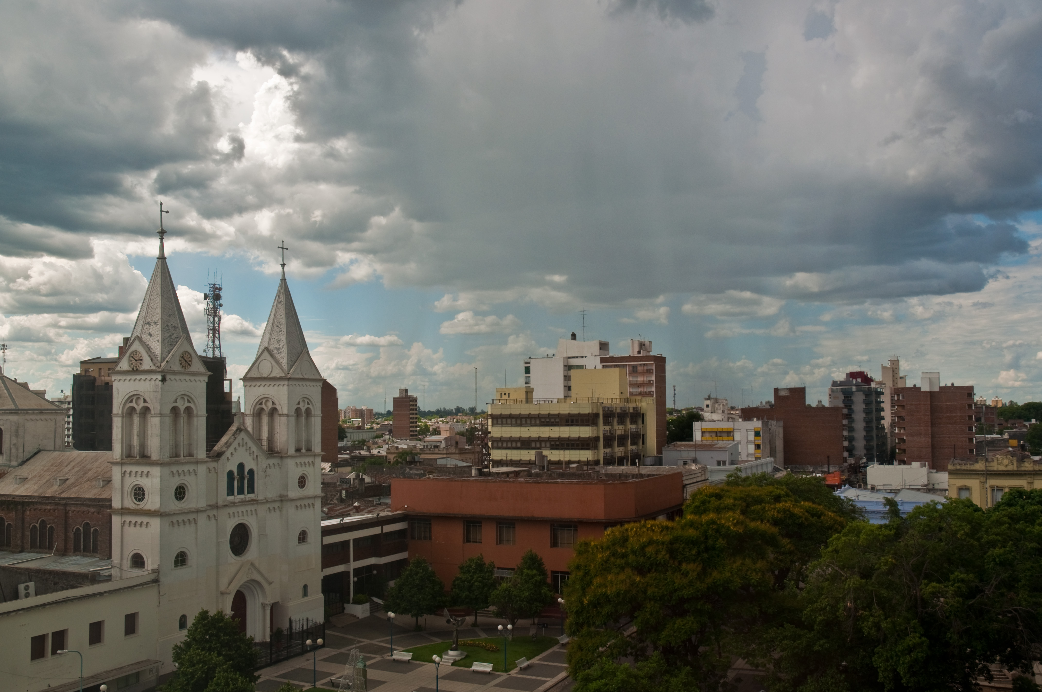 View of downtown Concordia, Entre Ríos Province, Argentina